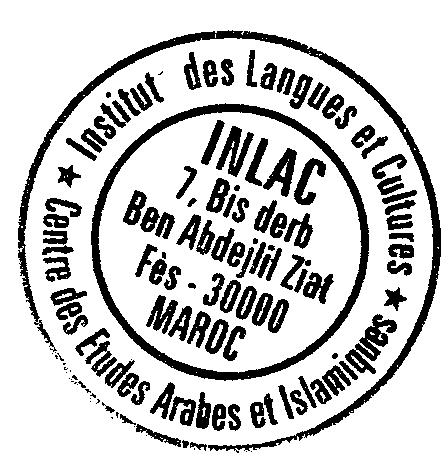 stamp